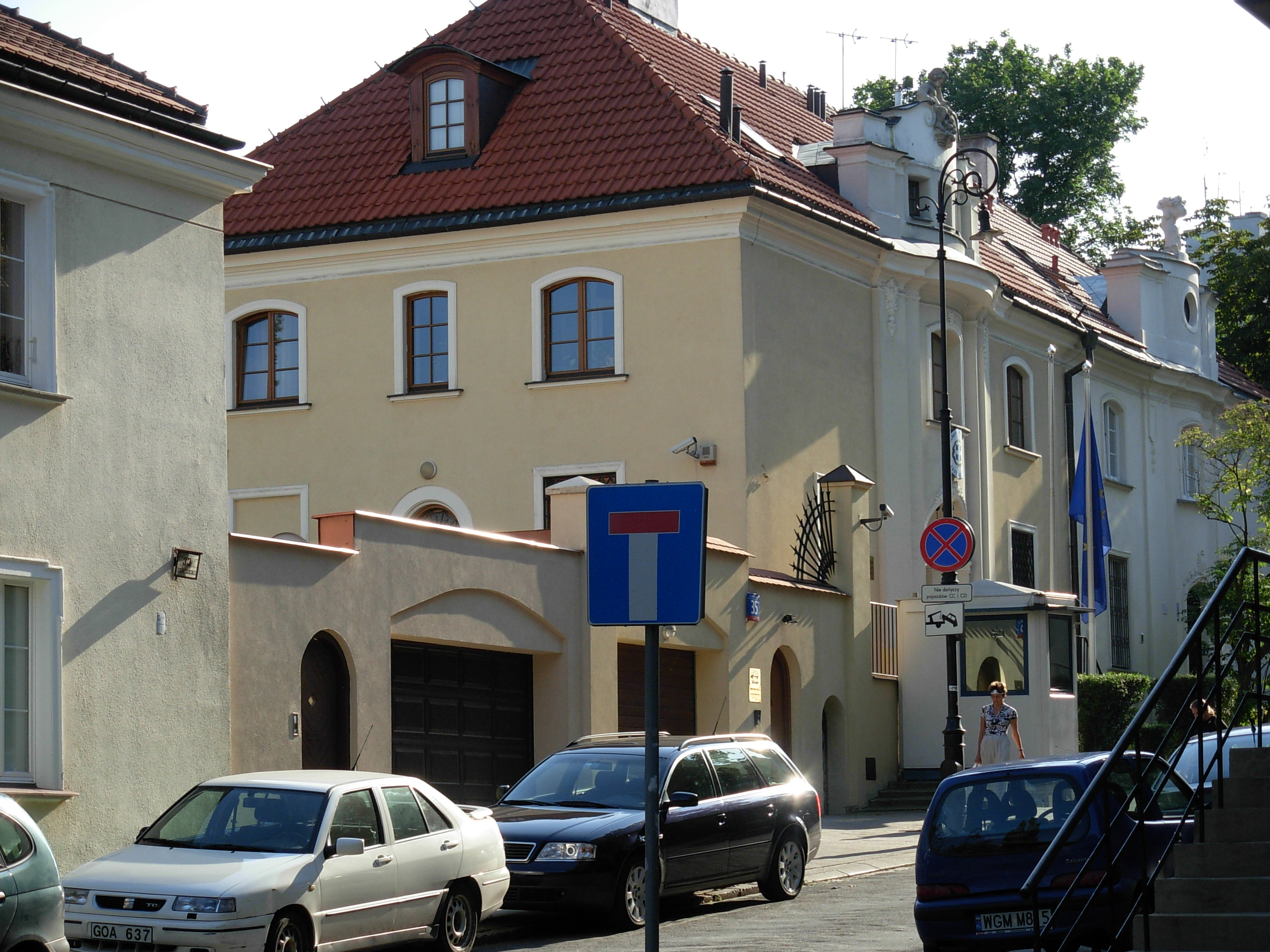 Greek Embassy in Warsaw